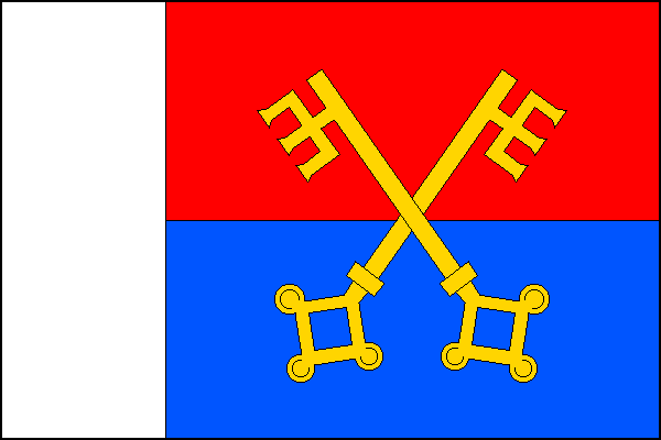 Municipal flag of Nupaky village, Prague-East District, Czech Republic.